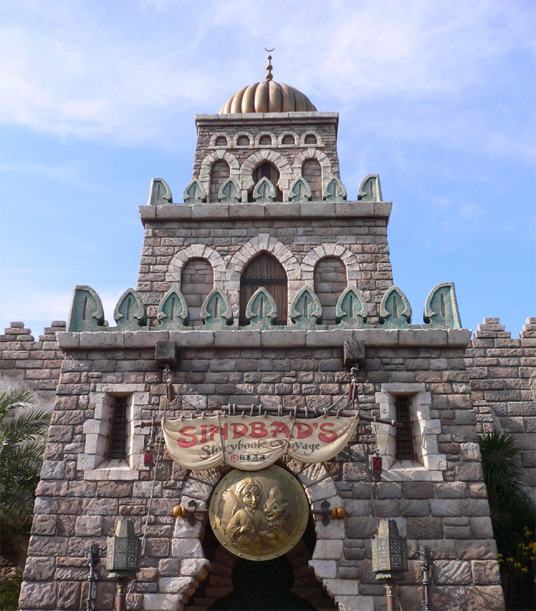 Sindbad's Storybook Voyage (Tokyo DisneySea Attraction)